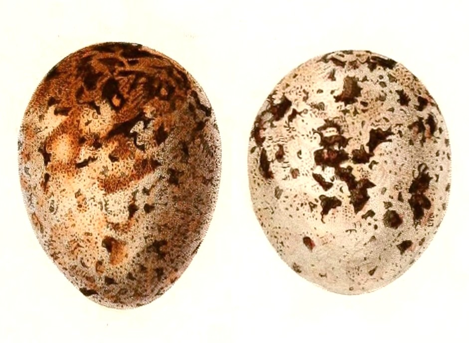 « Polyborus chimango » = Milvago chimango (Chimango Caracara) - eggs